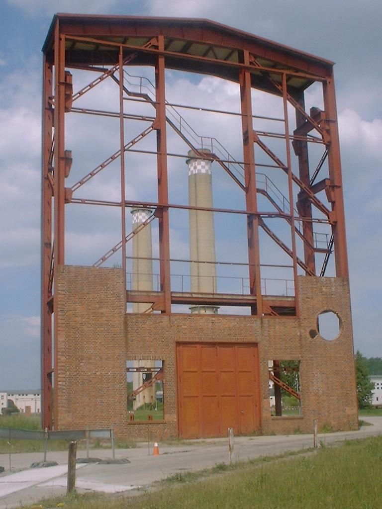 Former power station in Zschornewitz in Saxony-Anhalt, Germany